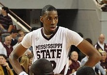 Jarvis Varnado of Mississippi State and Rider basketball players in 2009.